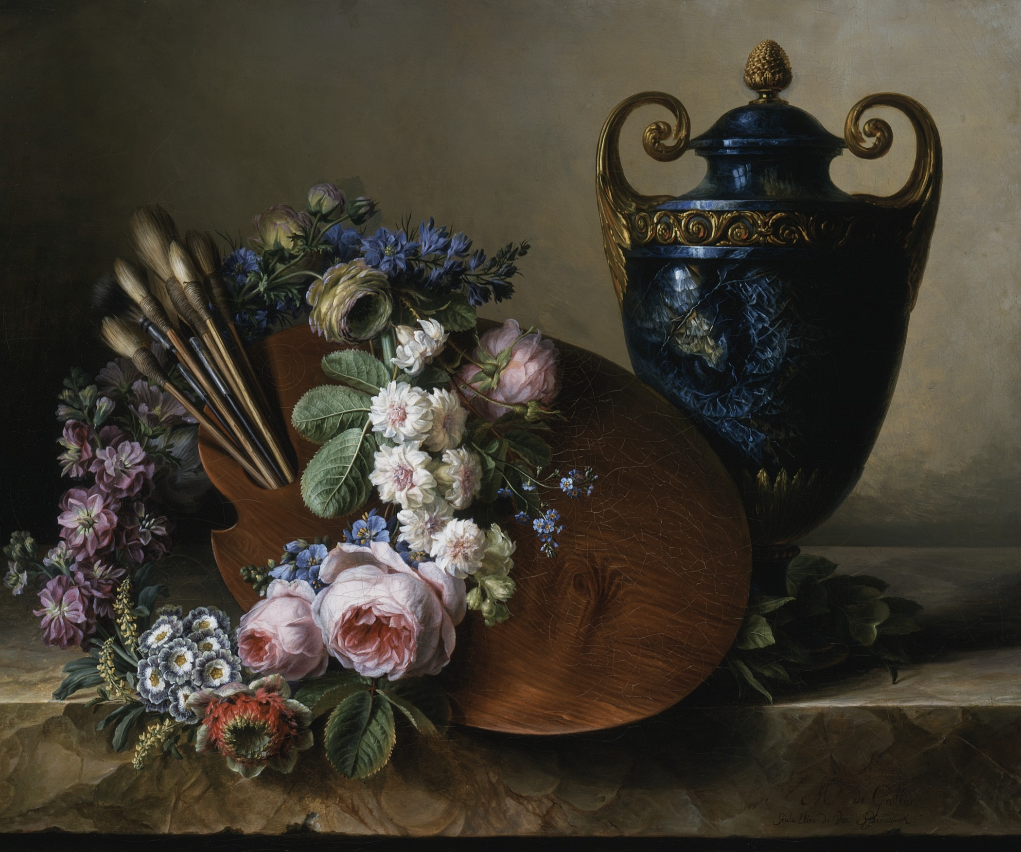 France, circa 1780-1790 Paintings Oil on canvas Purchased with funds provided by Elizabeth C. Anketell Bequest, Mr. and Mrs. William Preston Harrison Collection, Fred Maxwell, A. Popper, Charles H. Quinn Bequest, and an anonymous donor, by exchange (AC1996.57.1) European Painting Currently on public view: Ahmanson Building, floor 3